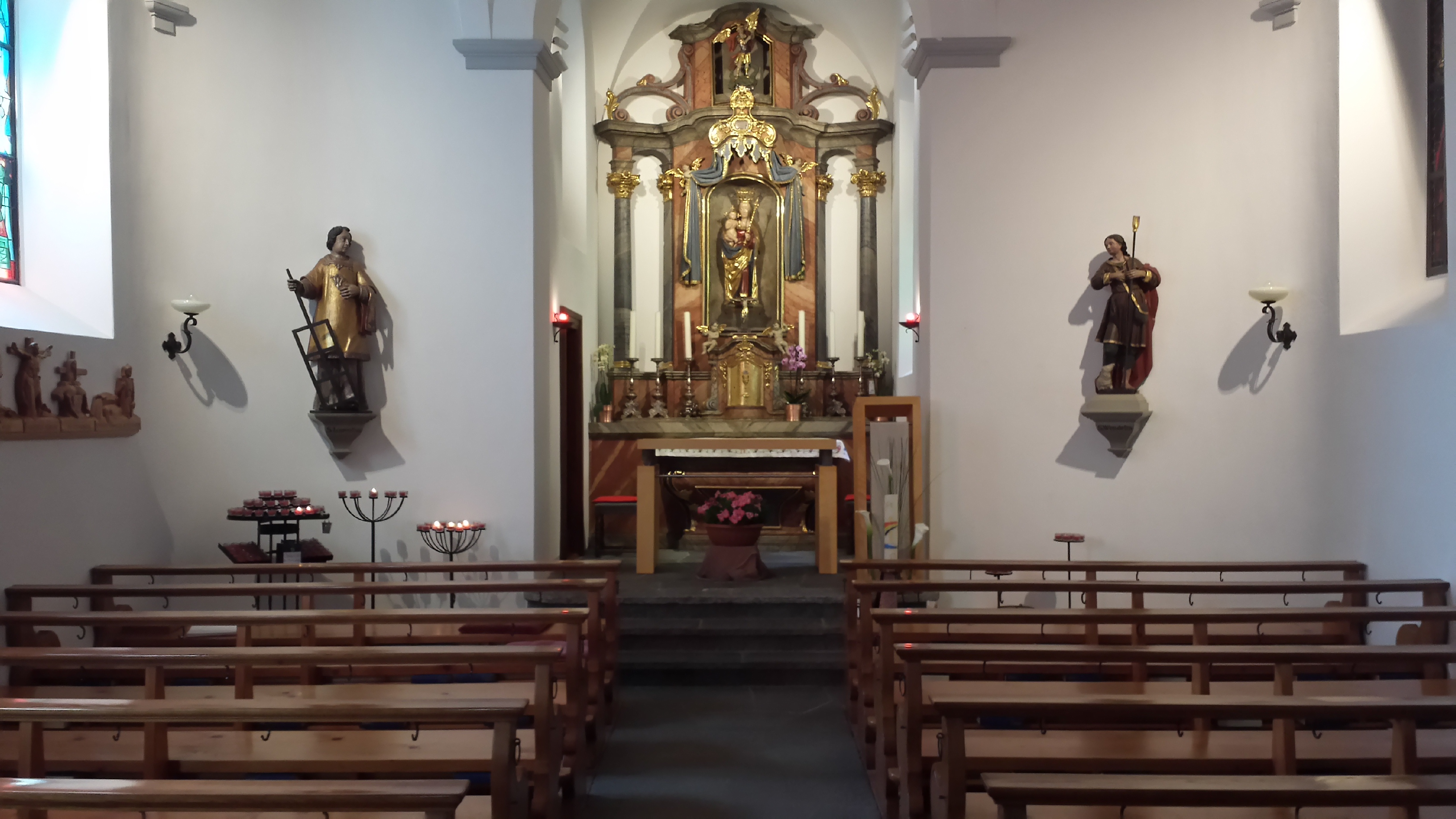 The Felsenkapelle St. Michael at Rigi Kaltbad, Switzerland